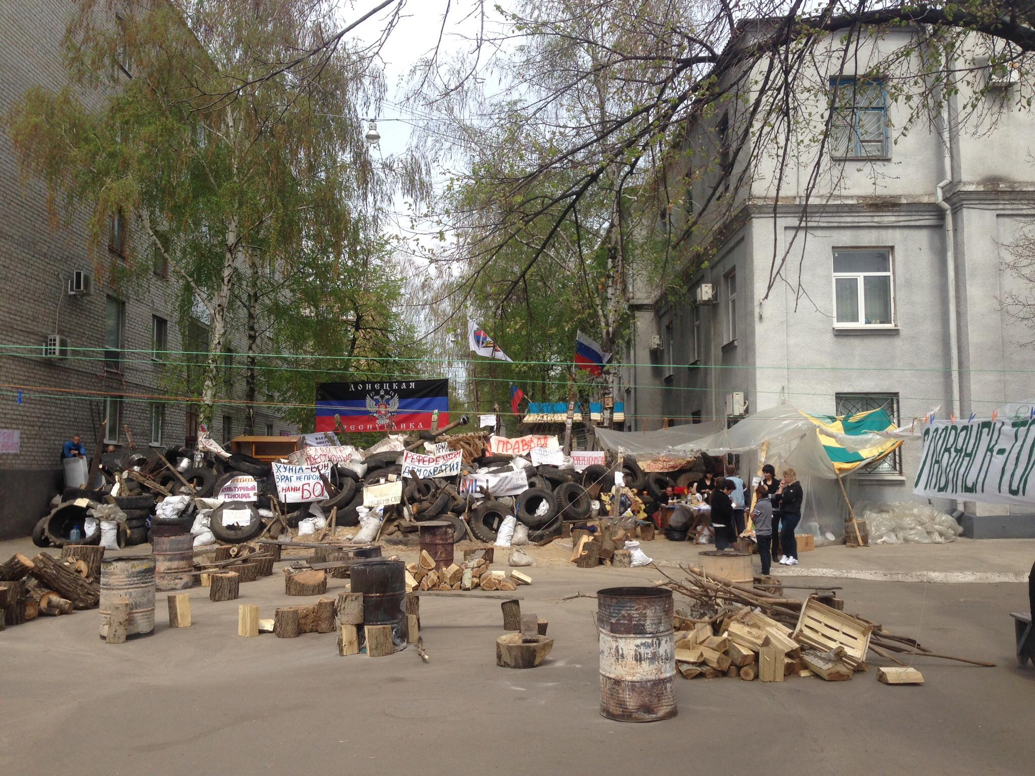 Barricades in Sloviansk, Donetsk oblast, Ukraine, during the Sloviansk standoff. The author of this photo, Aleksandr Sirota, visited his parents in the city on Easter holidays.